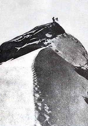 Frederick A. Cook's picture of Ed Barrill atop a peak claimed to be Denali but actually almost 20 miles away.